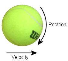 Illustration of topspin